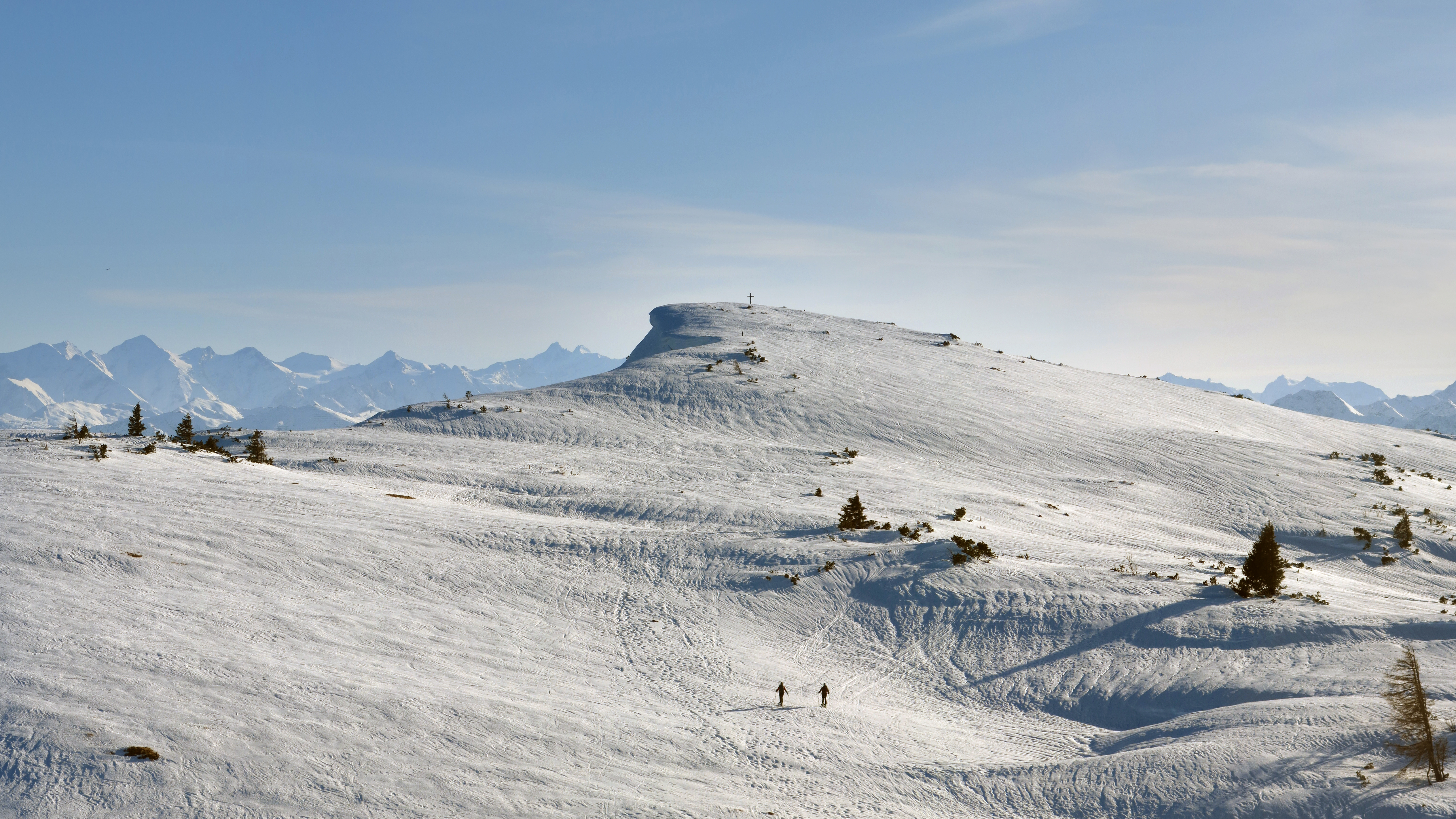 The Fellhorn (1764 m) in the Chiemgau Alps in Tyrol, Austria, seen from north. In the background the High Tauern